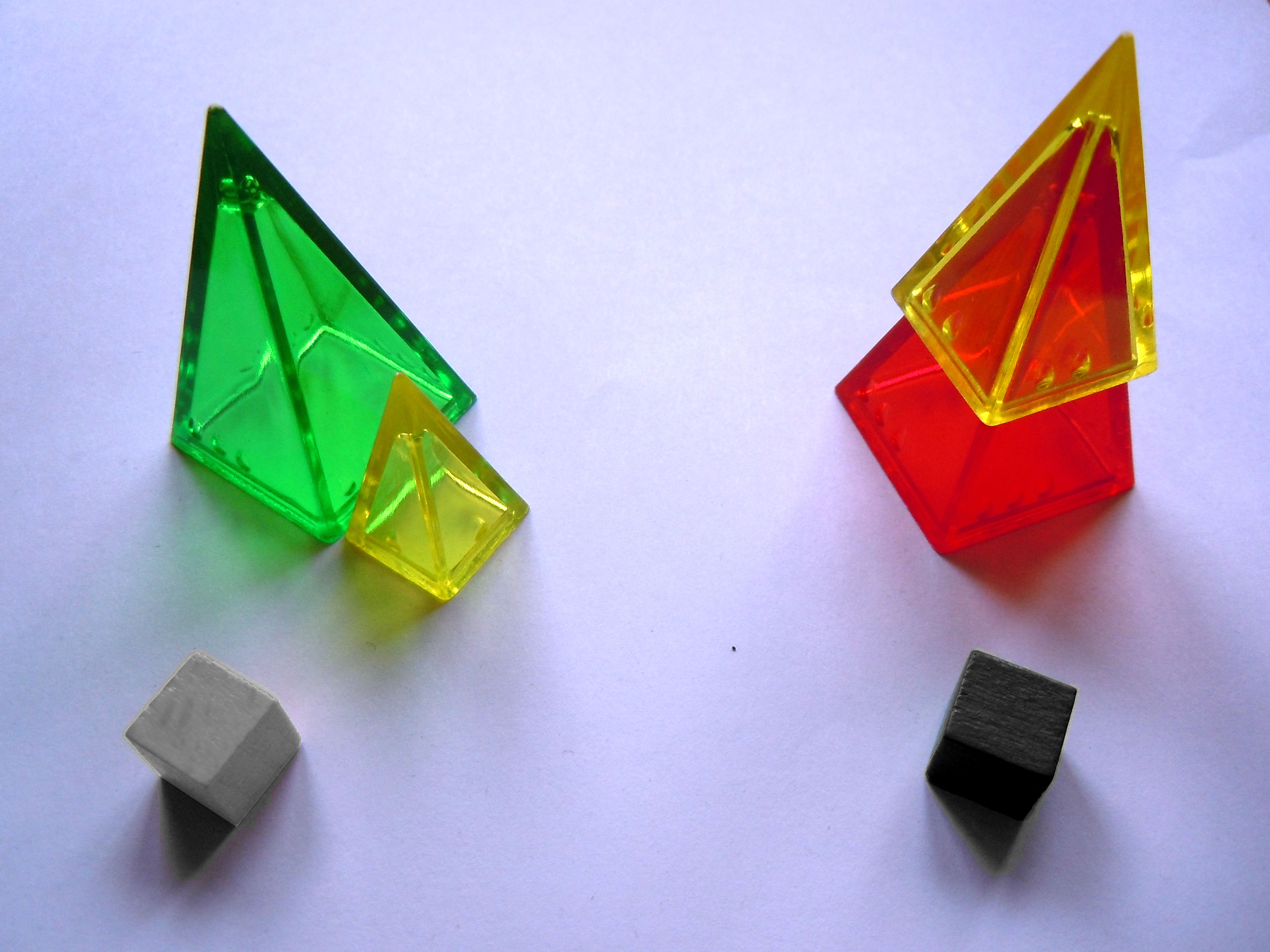 Two Icehouse Piece koans in a game of Zendo.